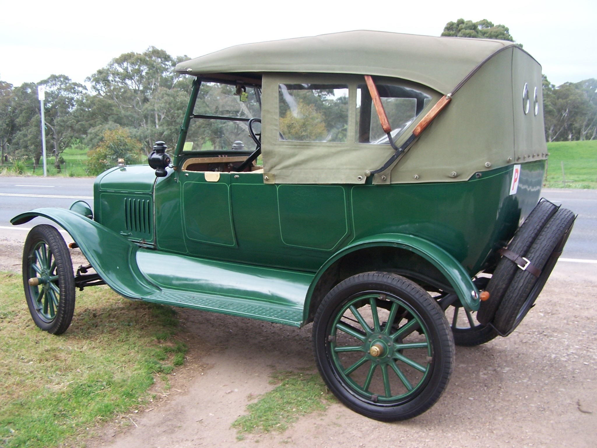 This is an Australian Model T Ford owned by a friend. It was an ex-cop car, featuring a back door on only one side. Other peculiarities were the three foot pedals (brake, clutch and reverse) and the combined accelerator-handbrake. Taken at 5 megapixels.